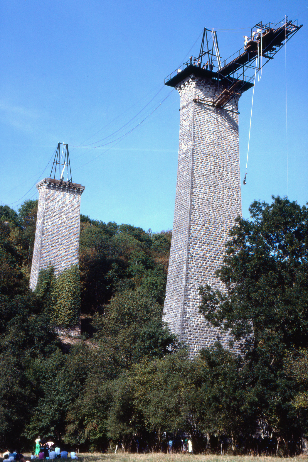 Souleuvre Viaduct, dismantled 1970, Bungee-Jumping from the highest pillar (61 m); la Vente, Normandy, France